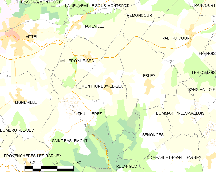 Map of French municipality Monthureux-le-Sec